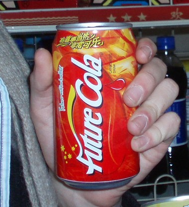 A can of Future Cola (China Cola) in a convenience store in Changzhou, China in 2006.